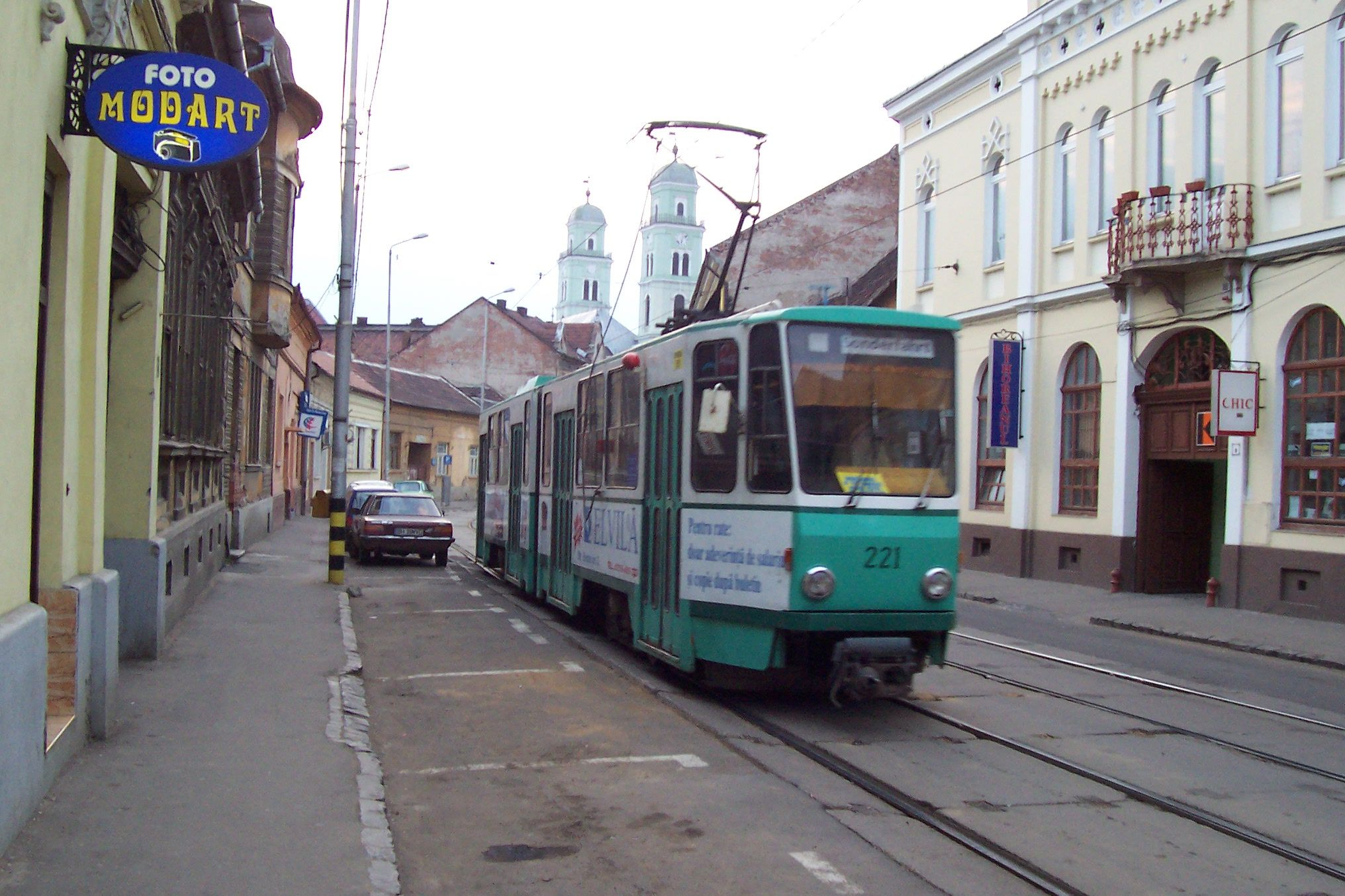 The ex BVB 219 031, ex BVG 9031 (in Berlin until 1997) Tatra KT4D tram, on Primariei street on a temporary route (Sinteza-Pta Unirii-Nufarul and back) because of the reabilitation works between Railway Station (Gara) & Dacia Bridge, Oradea, Romania